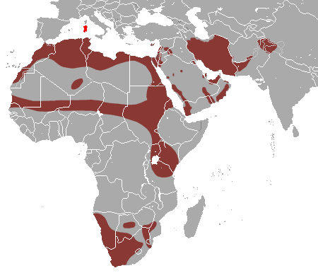 Cape Hare (Lepus capensis) range (dark red - native, red - introduced)